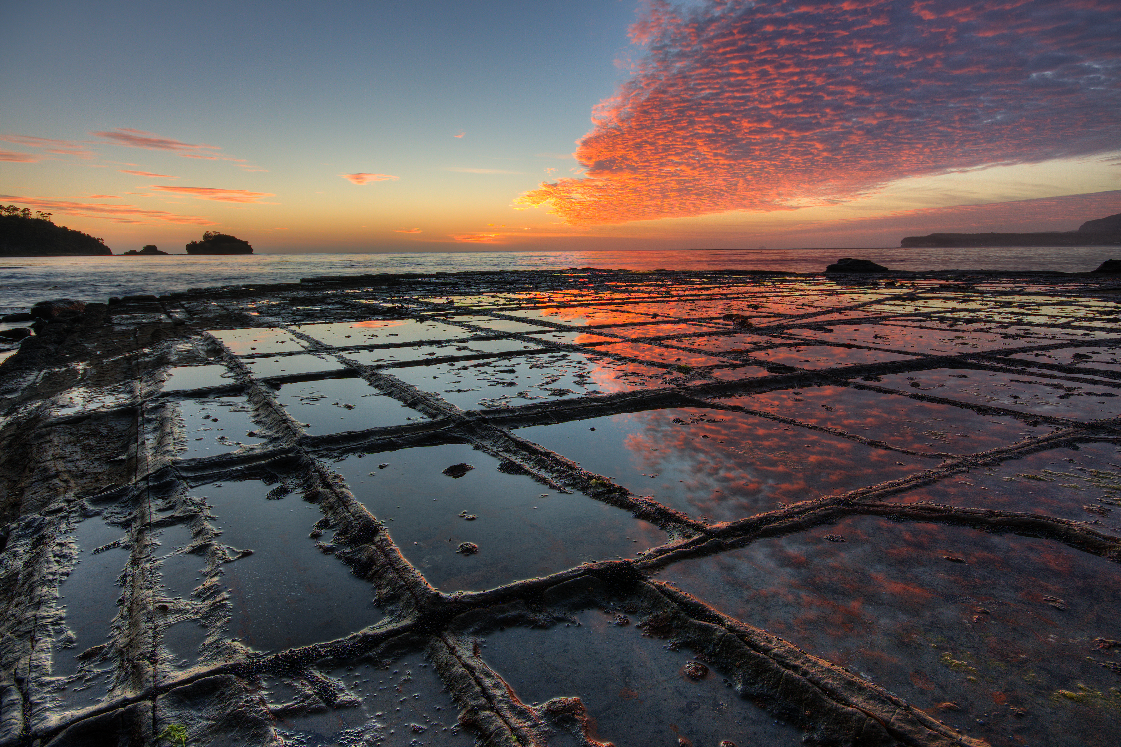 Sunrise, “Tessellated Pavement”, Eaglehawk Neck, Tasman Peninsula, Tasmania, Australia. The „Tesselated Pavement“ is the result of an orthogonal joint pattern in the rock. On the picture it shows the so called “pan formation”, where the rock in the immediate vicinity of the joints is more resistant to erosion than the rock that is more distant to the joints, This is due to alterations of the rock along the joints by hydrothermal (or similar) solutions when the rock was still buried deeply below the surface millions of years ago. When no alterations or alterations that lower the erosional resistivity have taken place in the geological past, the rock along the joints will erode faster than the rock that is more distant to the joints. In that case the so called “loaf formation” of “Tessellated Pavement” will form.